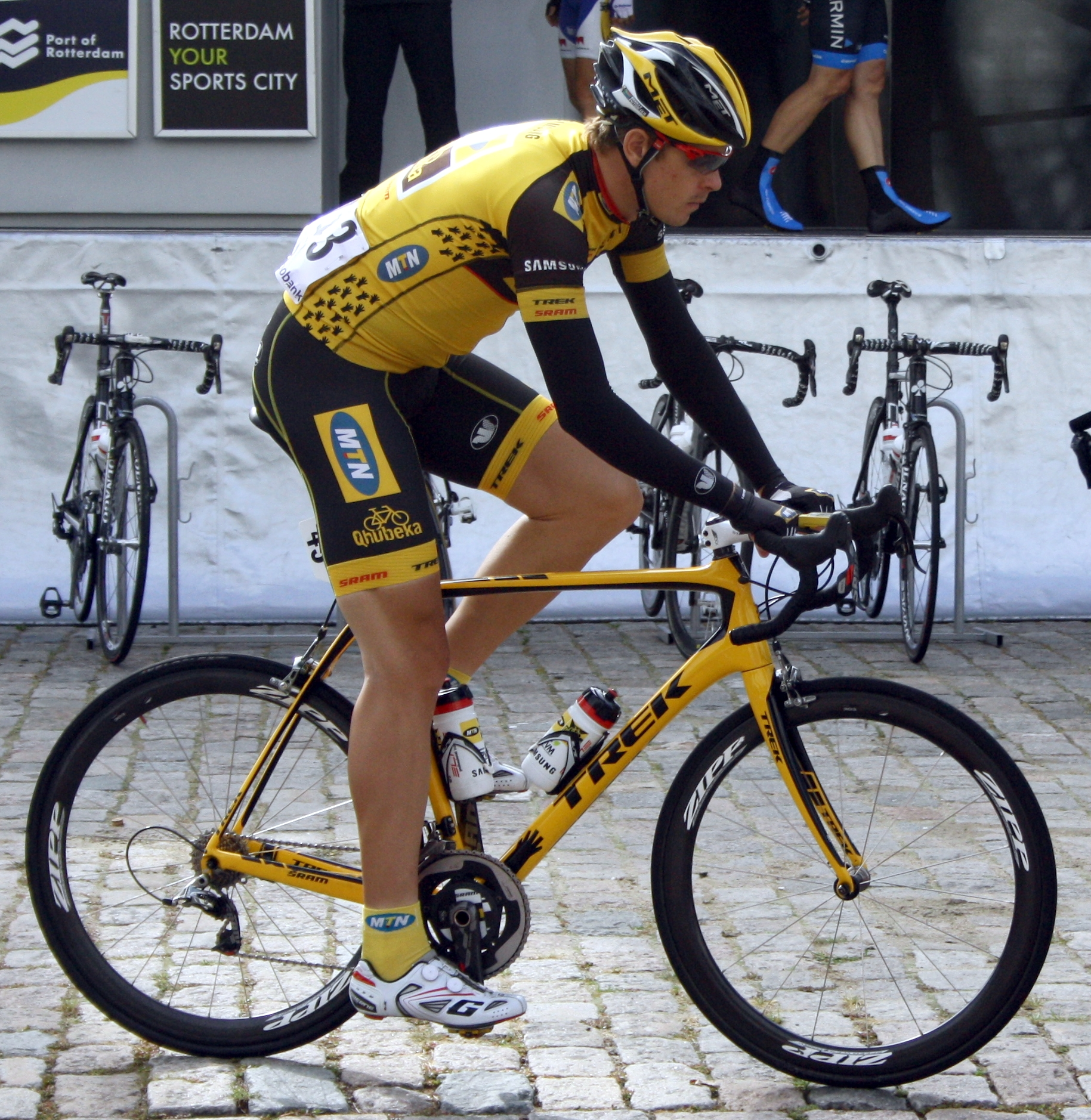 Bradley Potgieter before the start of stage 2 of the World Ports Classic 2013